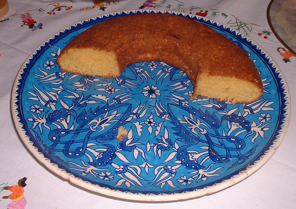 Baba (Baba au Rhum, except that the rhum is not yet poured over)